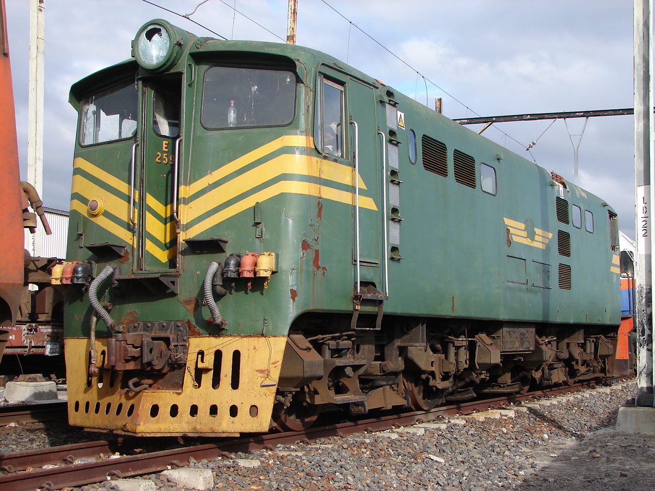 SAR Class 5E Series 1 E259 Builder's Number: EE 2163 Location: Bellville Depot, Cape Town